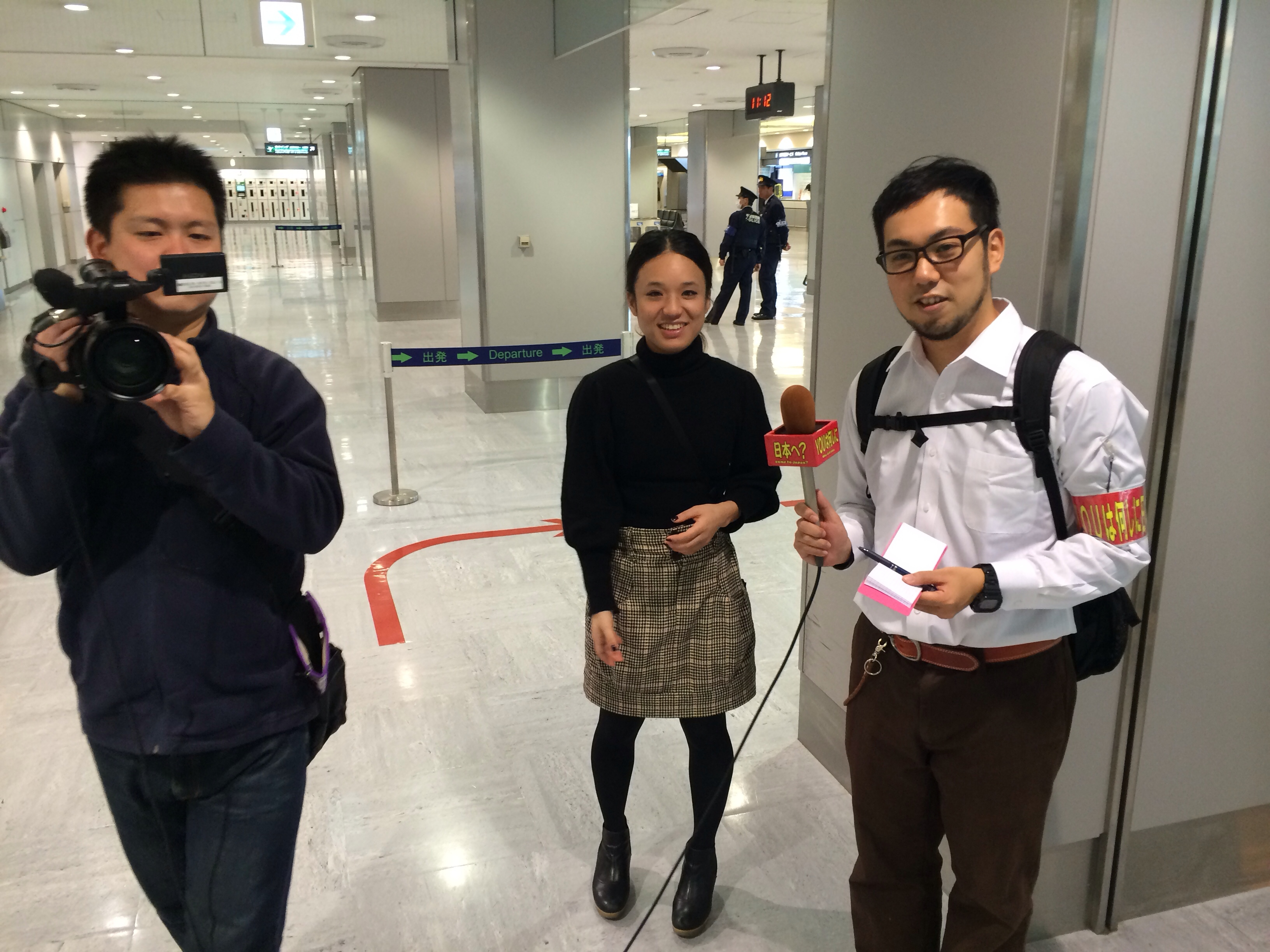 A reporter, interpreter, and cameraman at Narita Airport in Japan filming for the TV Tokyo television programme Why Did You Come to Japan?